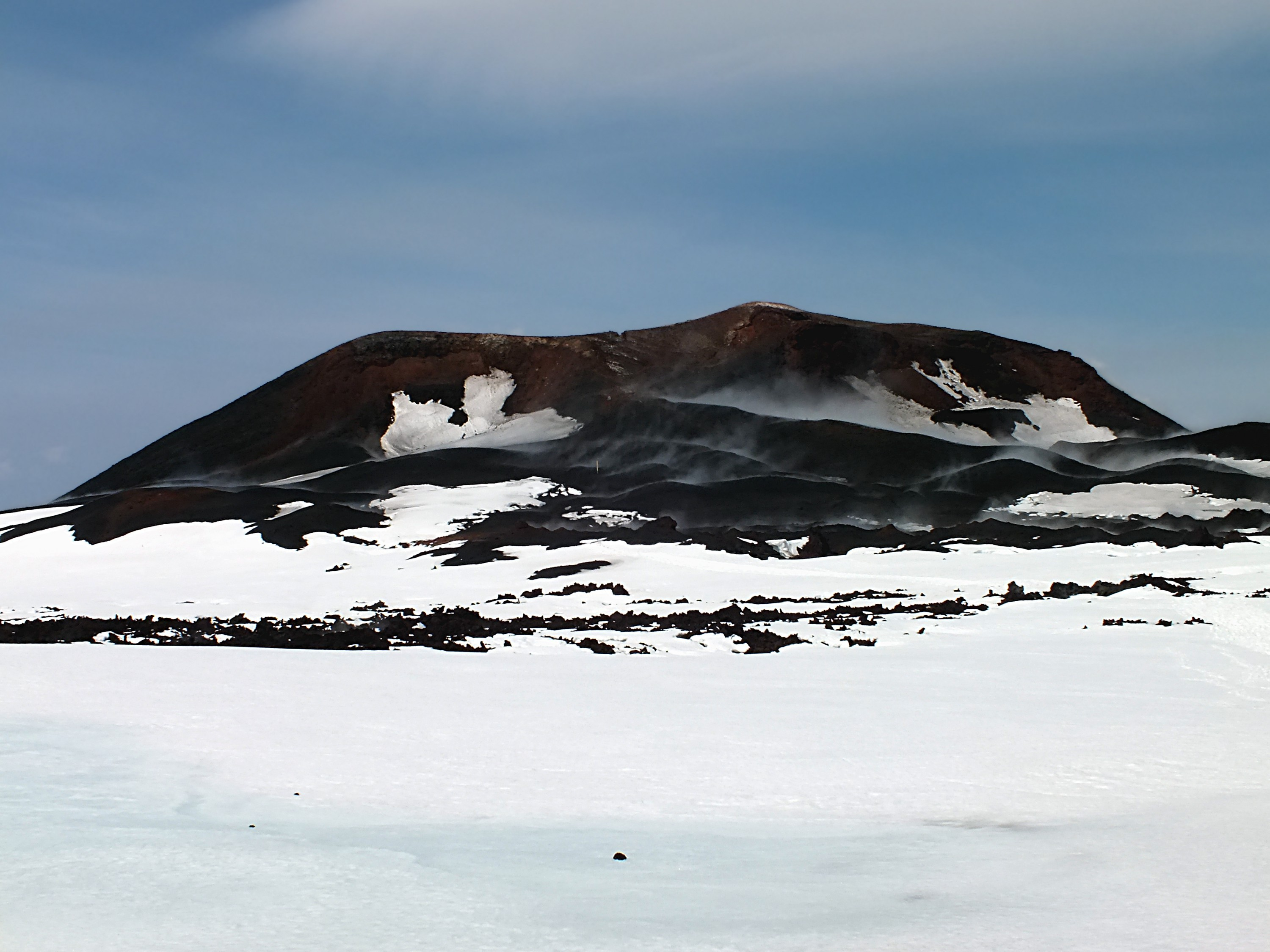 Magni crater and Goðahraun lava field.